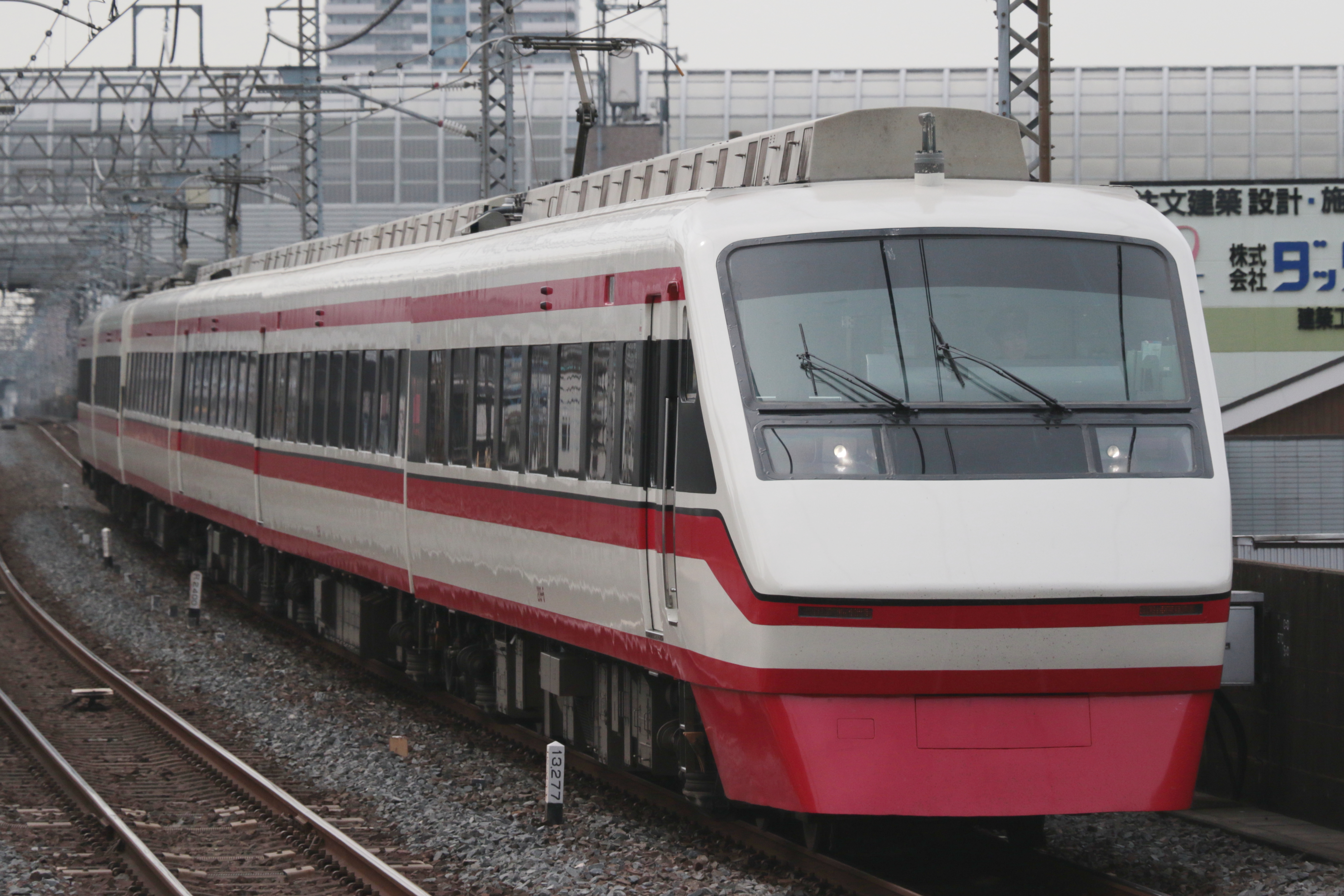 A Tobu Railway 200 series EMU passing Shinden Station on a Ryomo limited express service